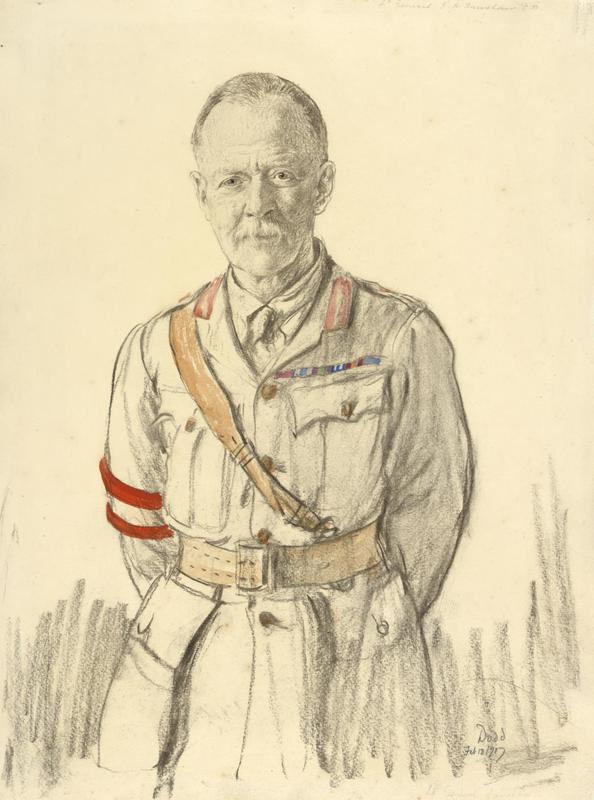 Lieut-general Sir Edward Arthur Fanshawe, Kcb image: a half length portrait of General Sir Edward Fanshawe in uniform, standing with his arms behind his back.